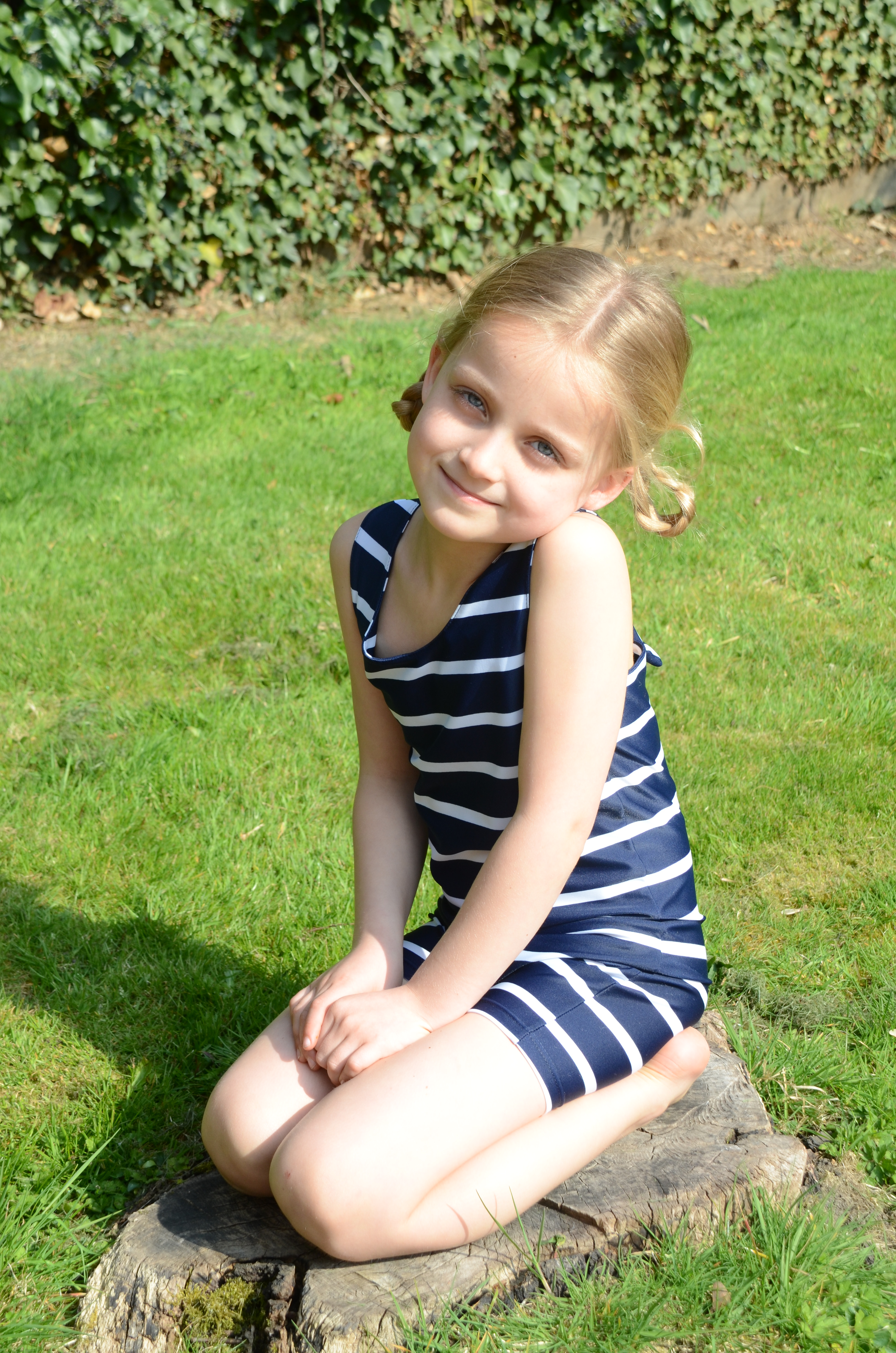 UV Swimwear for children, to stay safe in the sun.